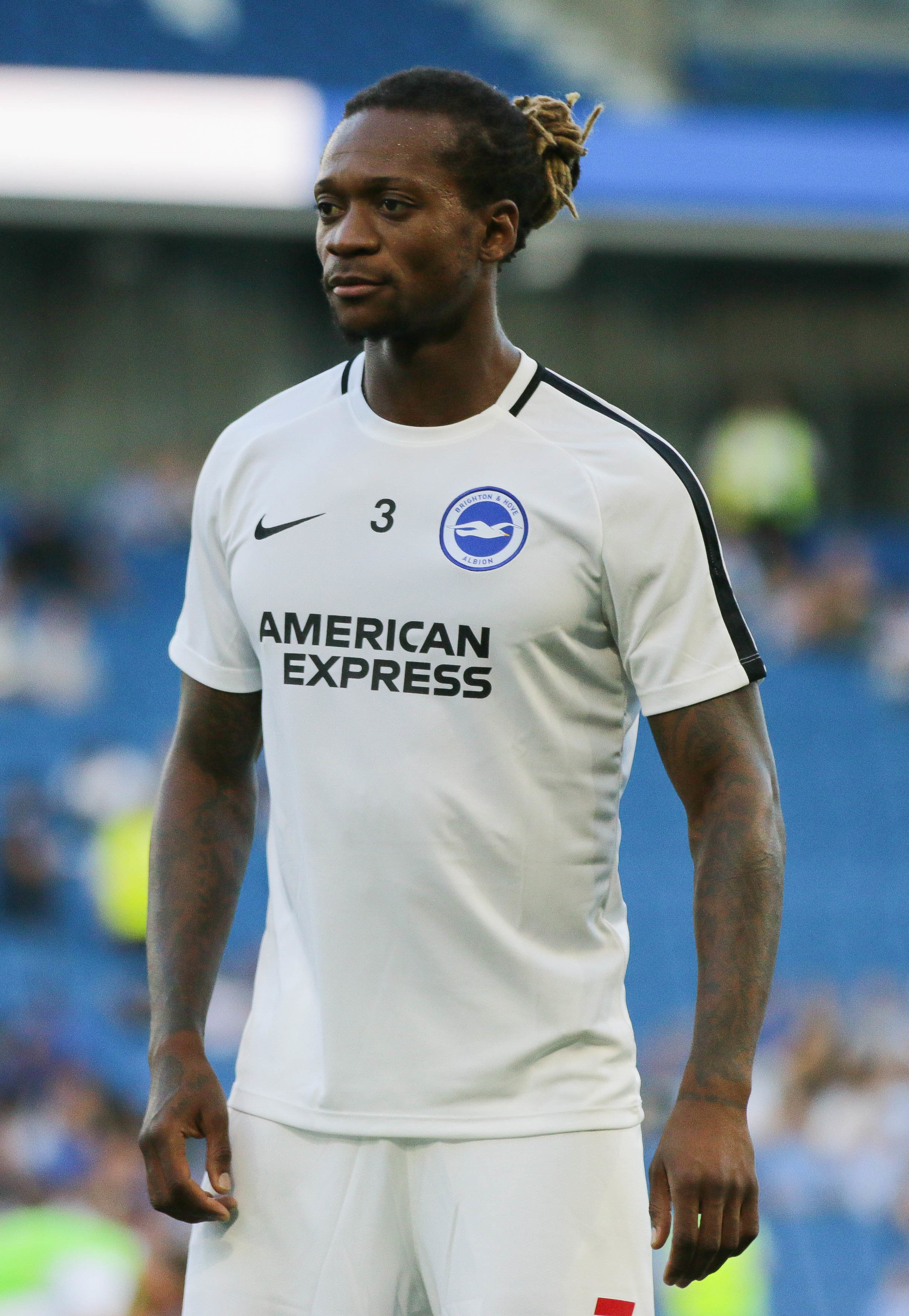 BHA v FC Nantes pre season 03 08 2018-15.jpg